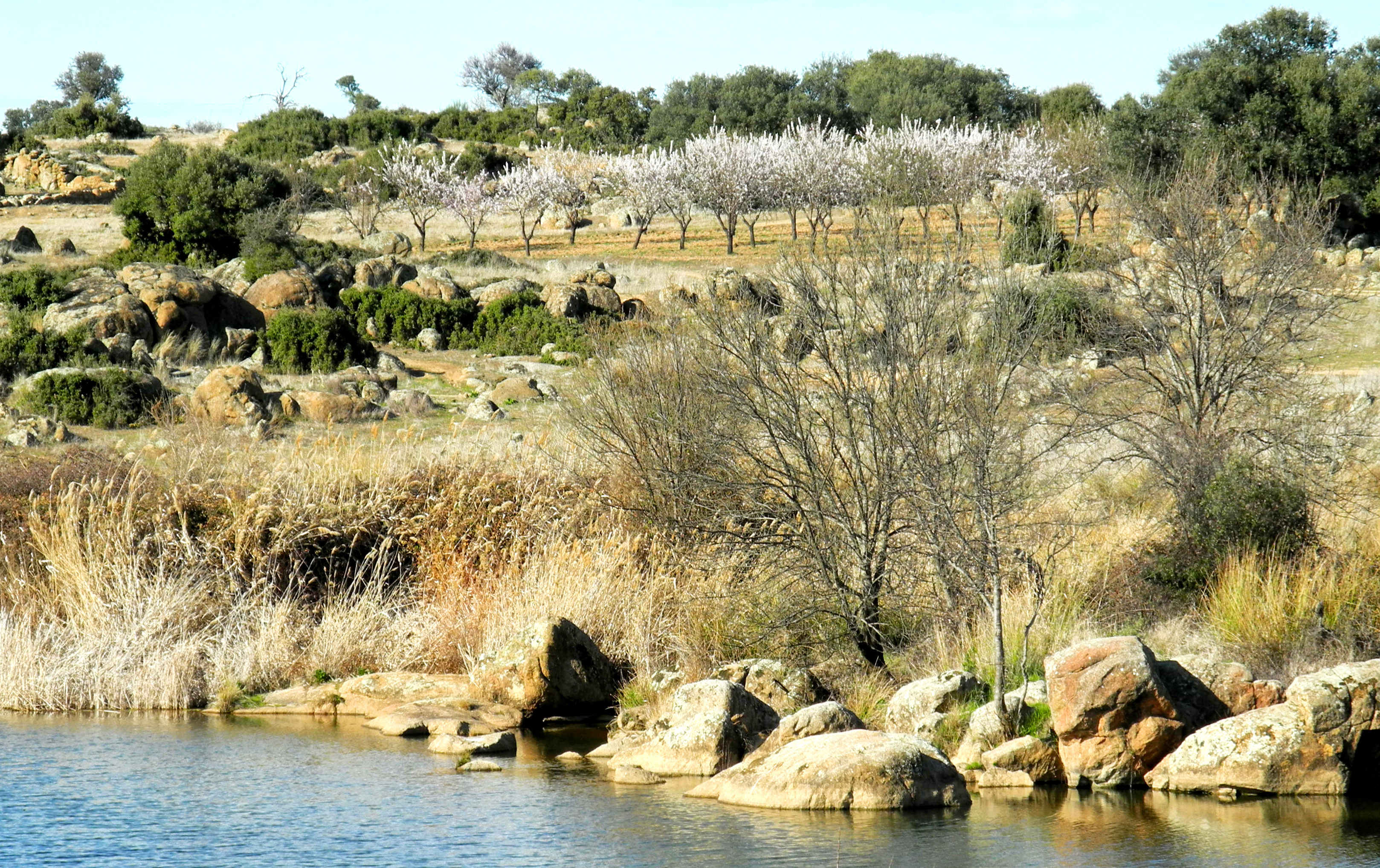 Flowering almond trees, beside the Pusa River. Los Navalucillos, Toledo, Castile-La Mancha, Spain